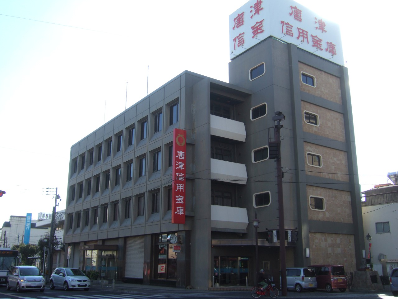 Karatsu Credit Association (Karatsu, Saga)